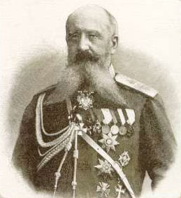 СRussian infantry general Andrei Nikolaevich Korf